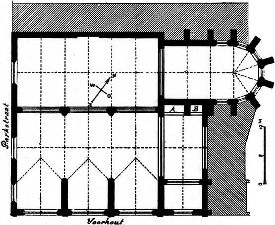 Kloosterkerk, Voorhout/Parkstraat, The Hague, plan. 1907 (?).